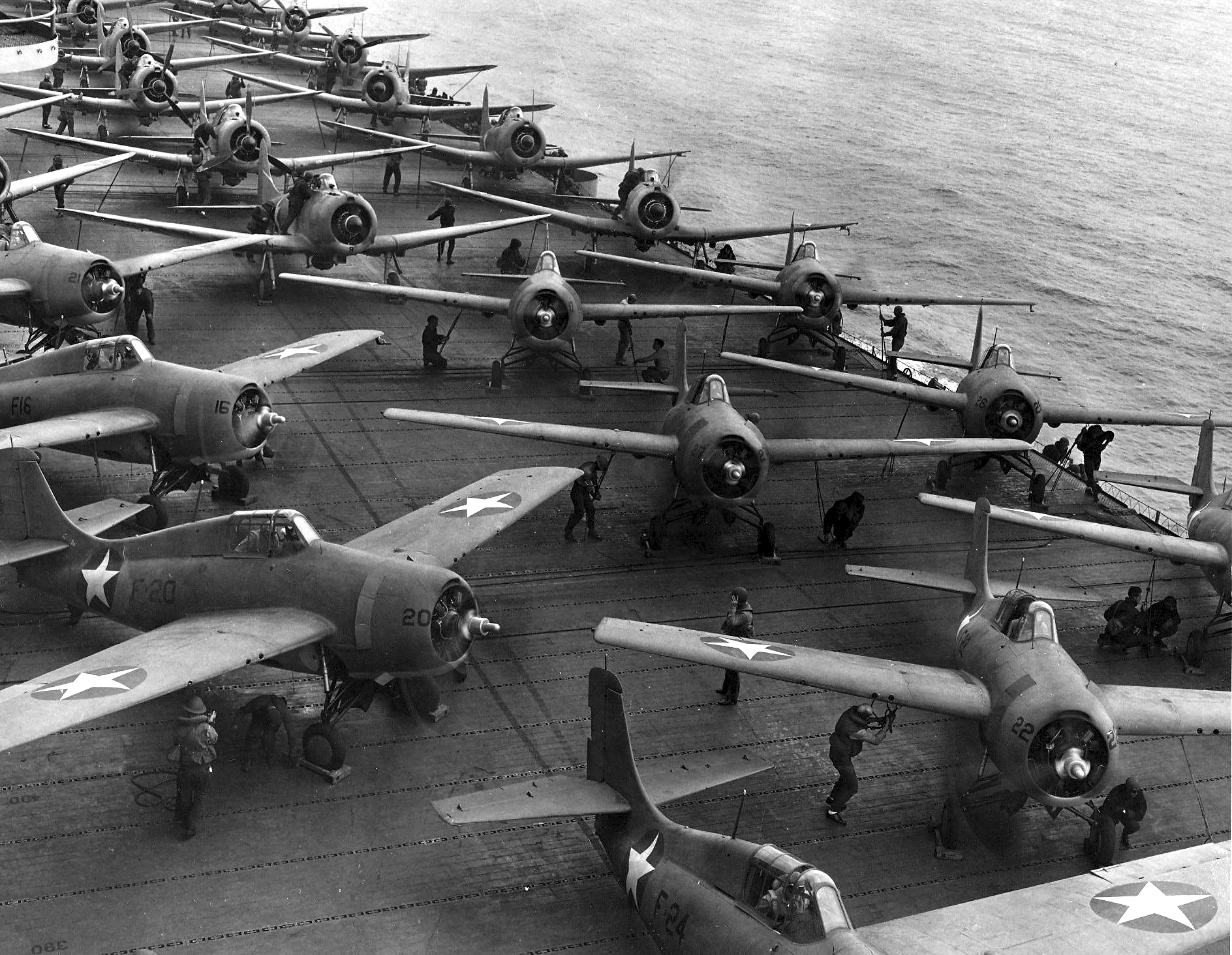 Flight deck of USS Hornet (CV-8) on the morning of 4 June 1942. Aircraft are spotted and ready to take off for strike on Japanese Kido Butai during Battle of Midway. F4F-4 Wildcats (from left to right) F-21, F-16, F-20, F-24 and F-22 can be identified in the foreground. This photo shows only 10 Wildcats and according to Lundstrom's The First Team: Pacific Naval Air Combat from Pearl Harbor to Midway (p. 333-334) take-off order these should be all of Mitchell´s escort fighters. Therefore another five unidentified Wildcats should be F-18, F-5, F-9, F-19 and F-13. None of them will return. SBD Dauntlesses in the background should be (according to Lundstrom) from Scounting Eight. According to Clayton Fisher's story [1] the forward SBD in the middle should be Fisher´s Bombing Eight SBDs. Note the old type of helmets on heads of handling-crew.